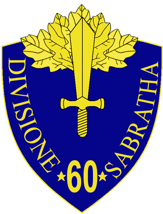 60a Divisione Fanteria Sabratha insignia, Regio Esercito, Italy, WWII